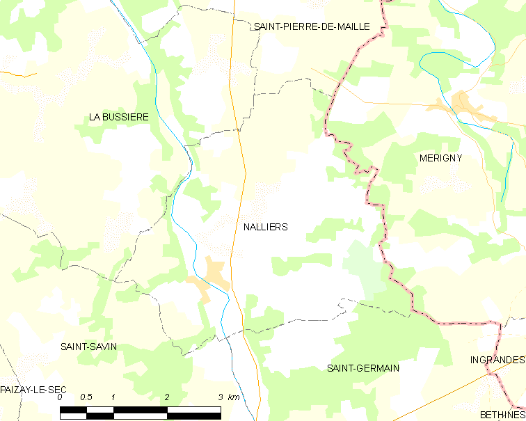 Map of French municipality Nalliers